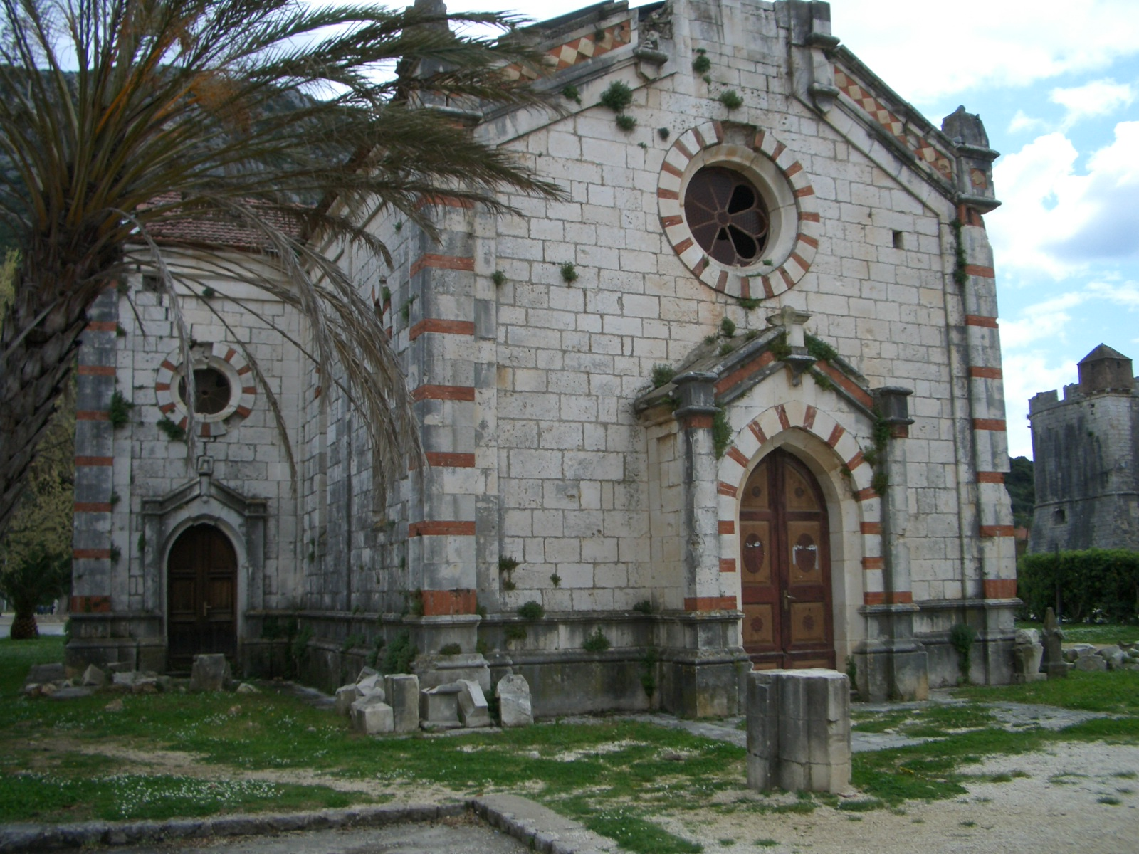 Old church in Ston